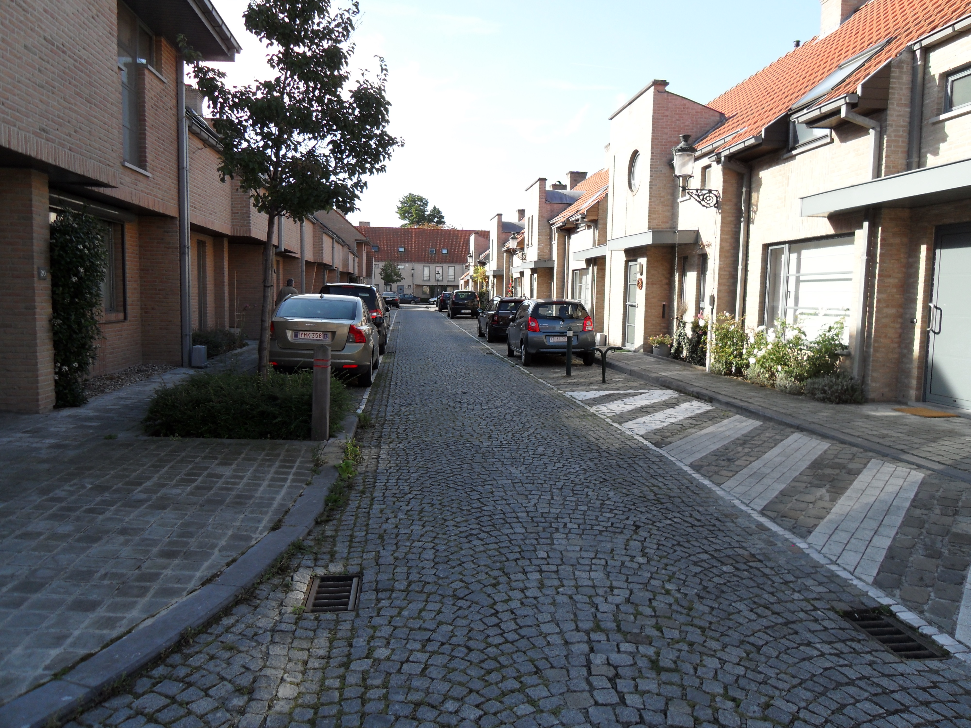 Jemes Wealestraat in Bruges